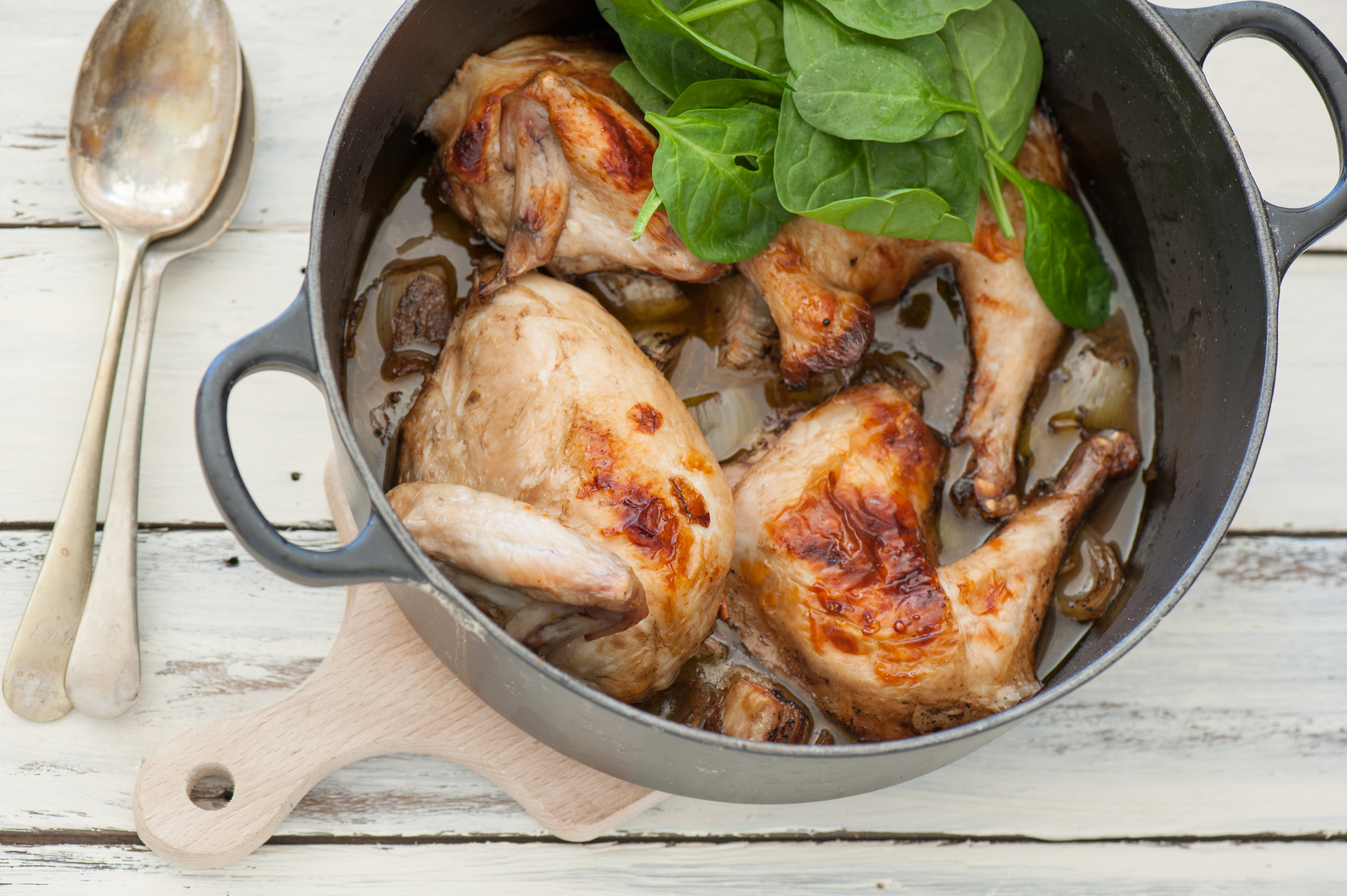 Balsamic chicken